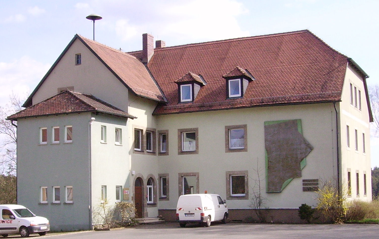 view of Steinfeld (Stadelhofen), part of Stadelhofen in Landkreis Bamberg, Germany